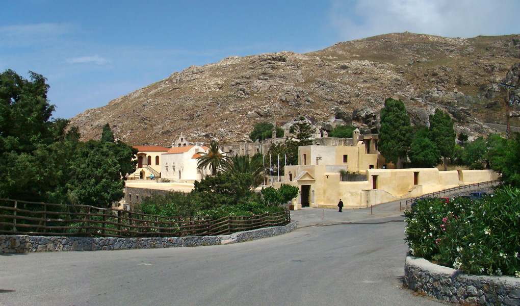 Monastery of Preveli, Crete, Greece.